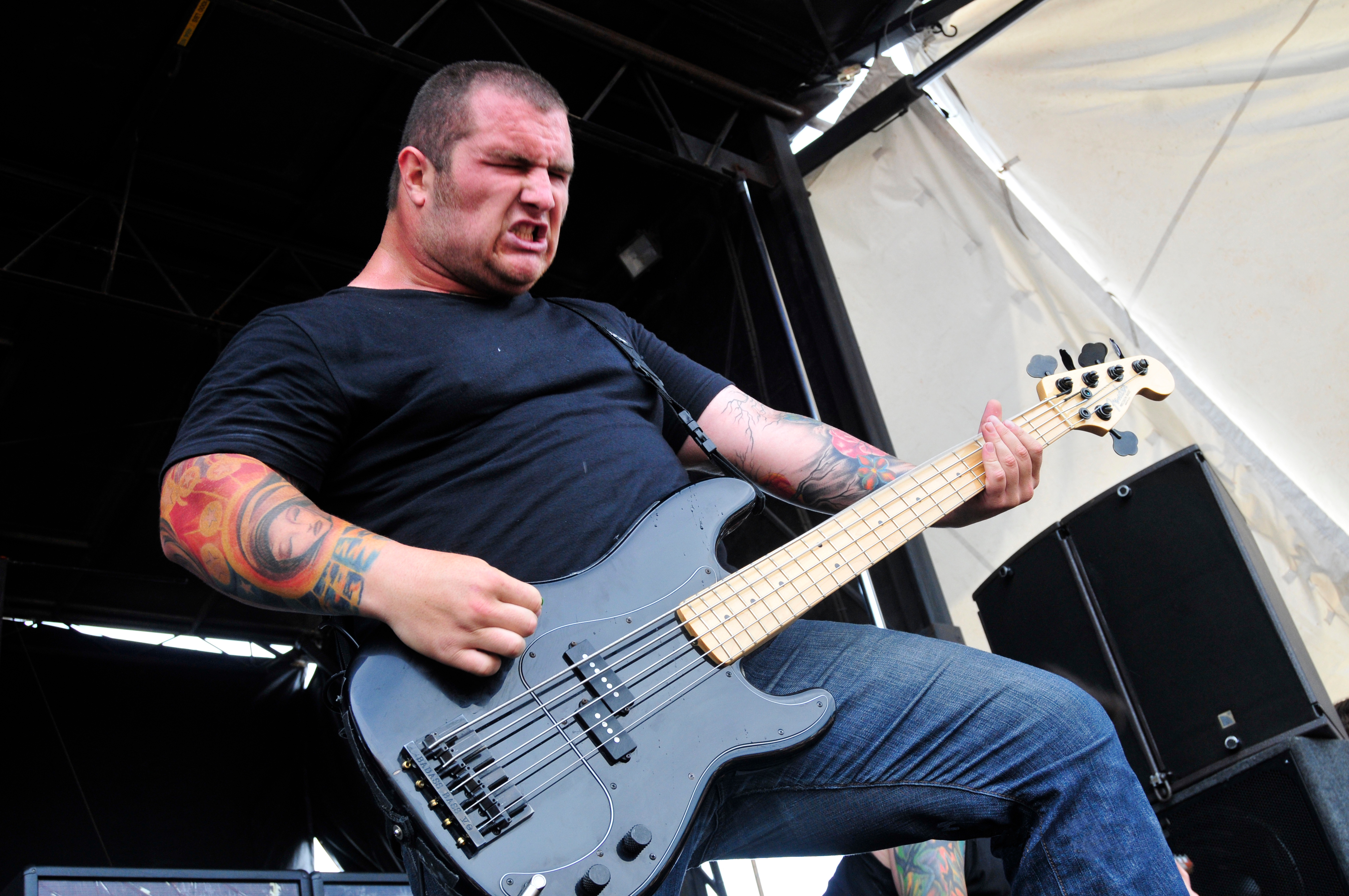 Gabe Crisp (Mayhem Festival 2009)